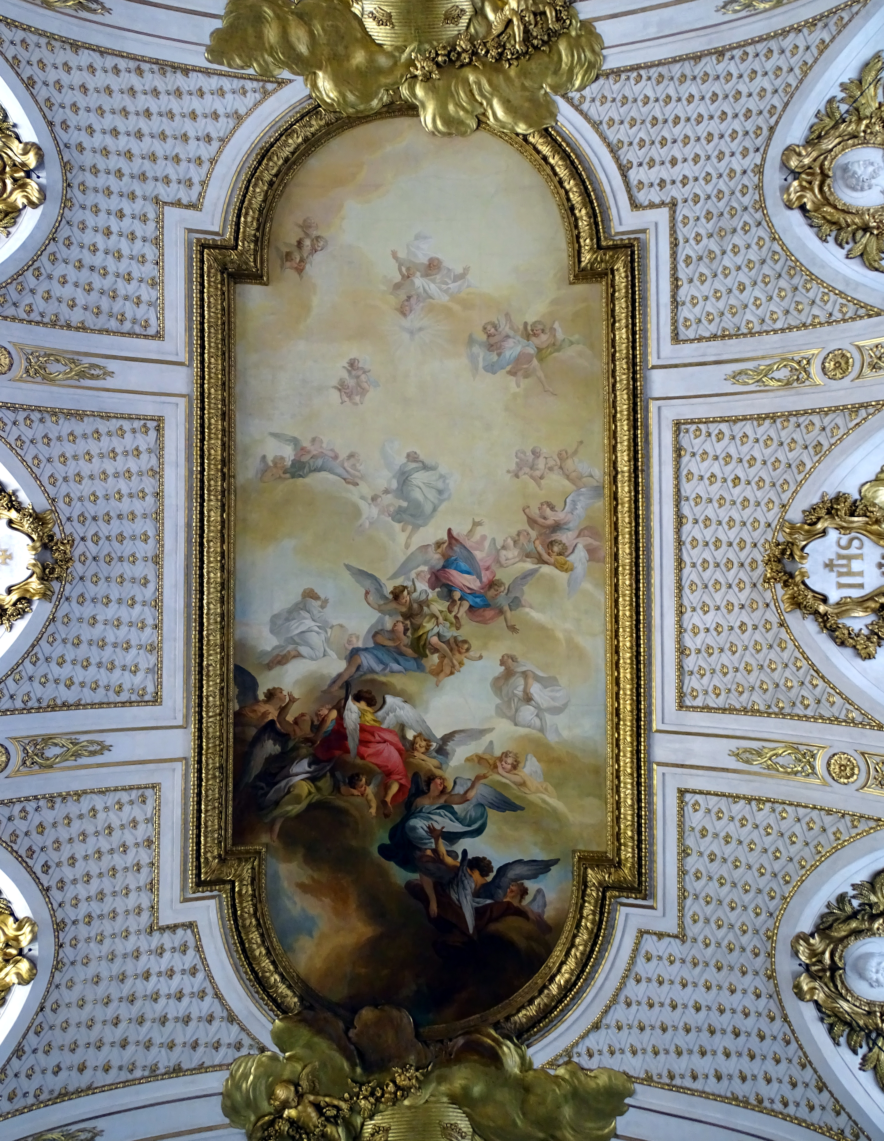 The Chapel (Slottskyrkan) in the Royal Palace, the official residence and major royal palace of the Swedish monarch, on Stadsholmen, in Gamla Stan, Stockholm, Sweden.